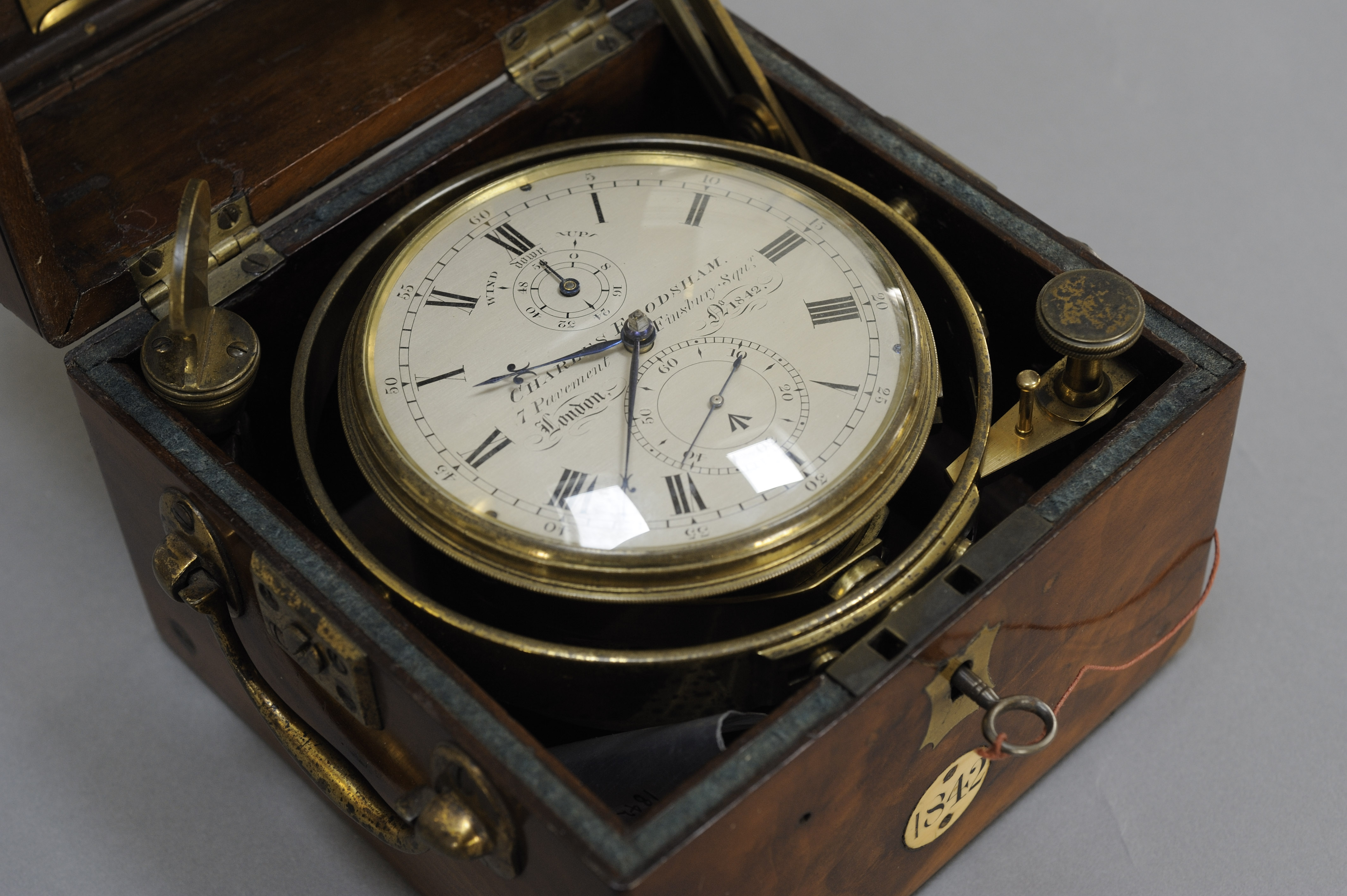 Boxed marine chronometer, no. 1842, by Charles Frodsham, of 7 Pavement, Finsbury Square